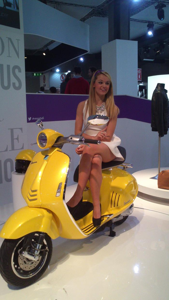 Vespa 946 at EICMA 2012